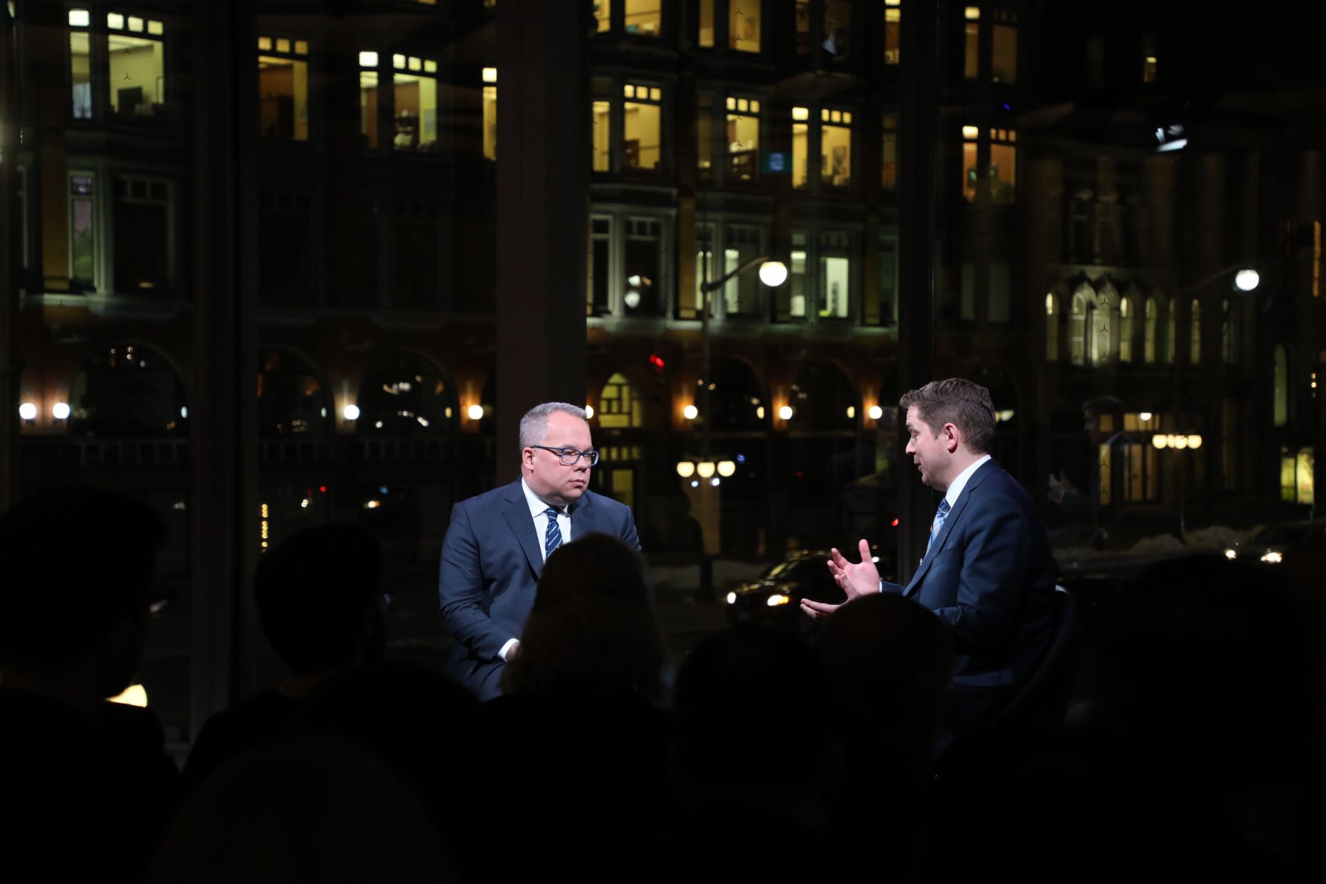 Thanks to Paul Wells for hosting tonight. Great to chat with you as part of the Macleans Live series.